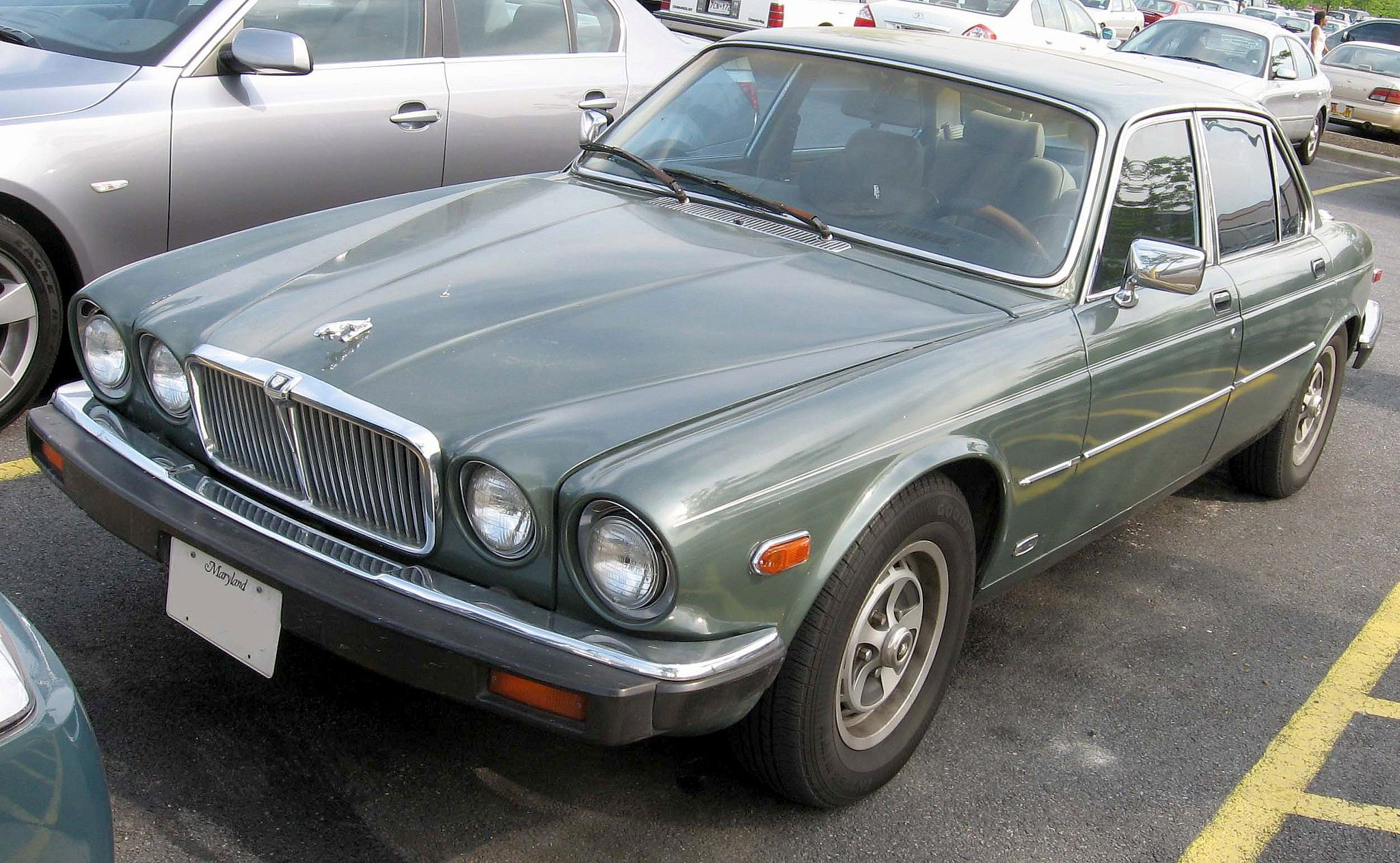 Jaguar XJ Vanden Plas photographed in USA.